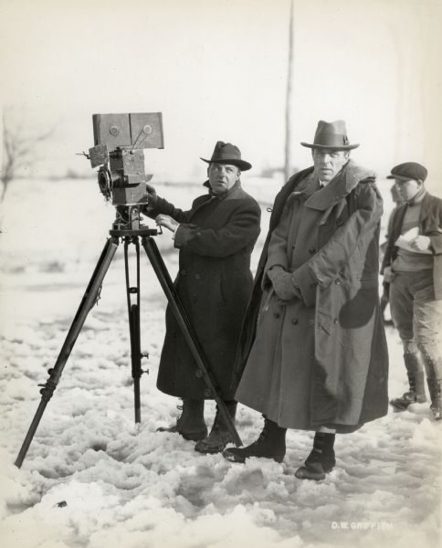 Cameraman G. W. "Billy" Bitzer and director D. W. Griffith on location in the snow filming the American film Way Down East (Griffith, 1920). Bitzer stands behind a Pathé camera.